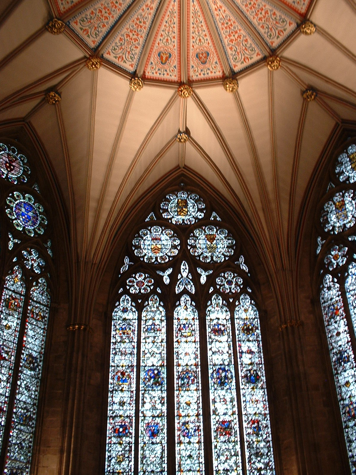 The interior of the York Minster Chapter House in York, UK.